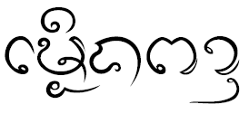 Lanna script – Mueang Pan is a district (amphoe) in the northern part of Lampang Province, northern Thailand.